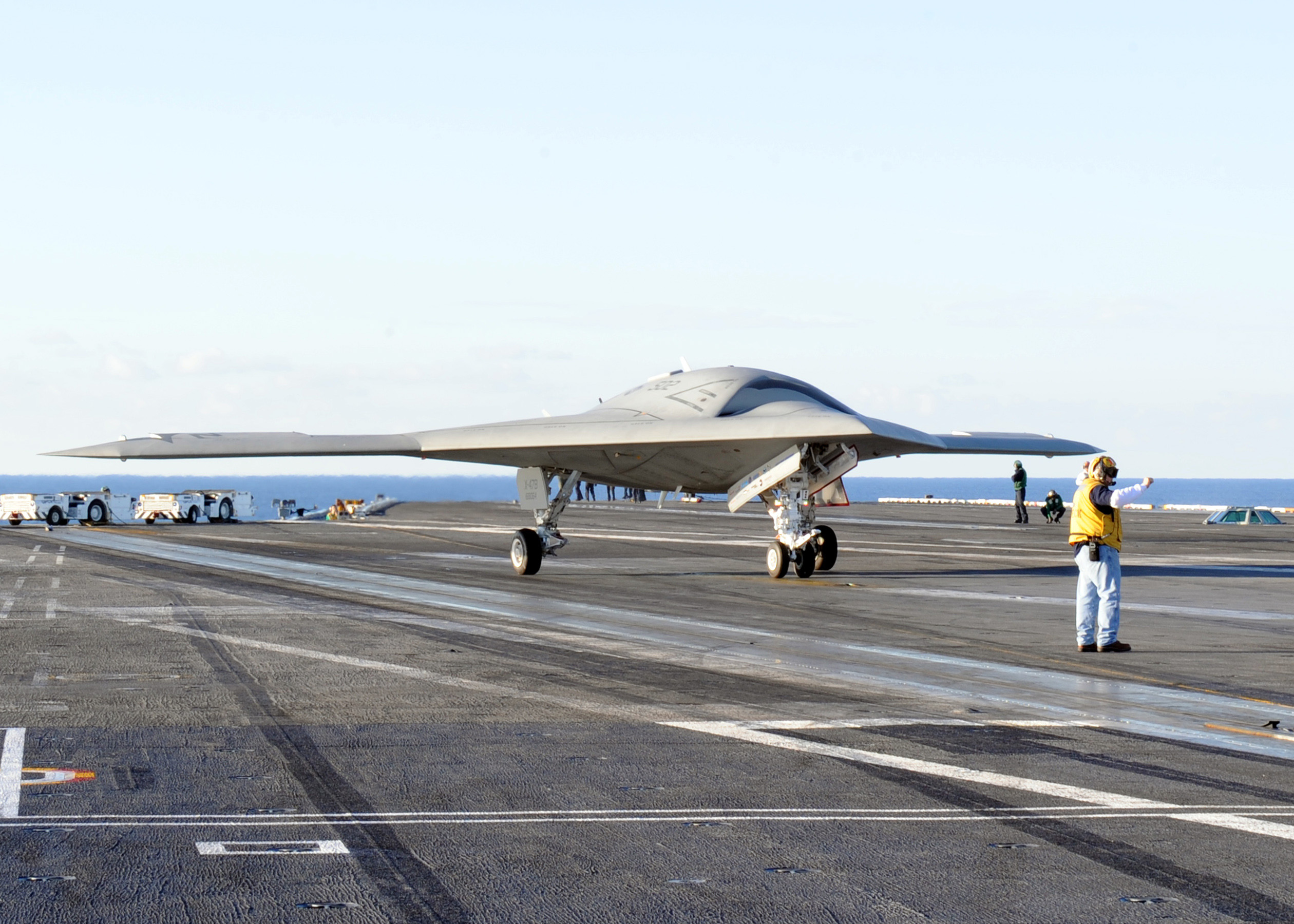 The X-47B Unmanned Combat Air System (UCAS) demonstrator taxies on the flight deck of the aircraft carrier USS Harry S. Truman (CVN 75). Harry S. Truman is the first aircraft carrier to host test operations for an unmanned aircraft. Harry S. Truman is underway supporting carrier qualifications.